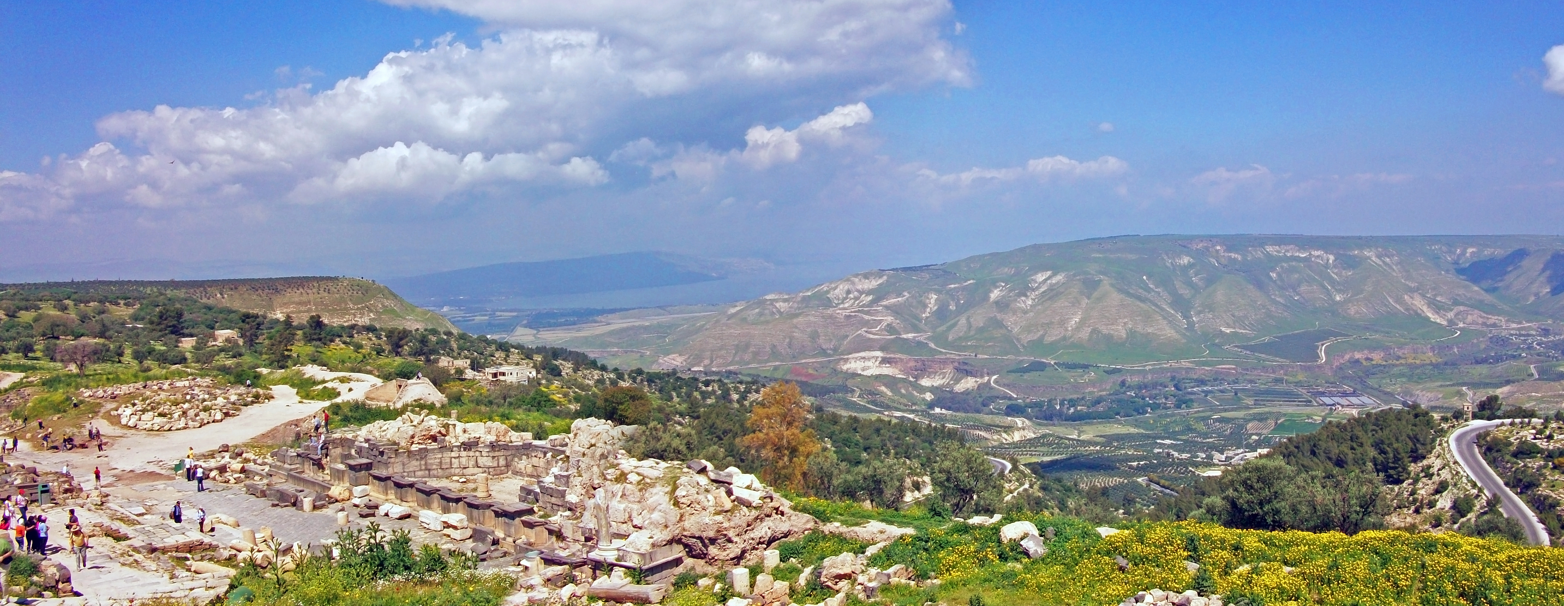 Panorama looking north from ruins of Roman city of Garada, at Umm Qais, Jordan. Prominent within this photo are the Sea of Galilee (with Tiberias, Israel, visible) and, across the valley of the Yarmouk, the southern end of the Golan Heights.